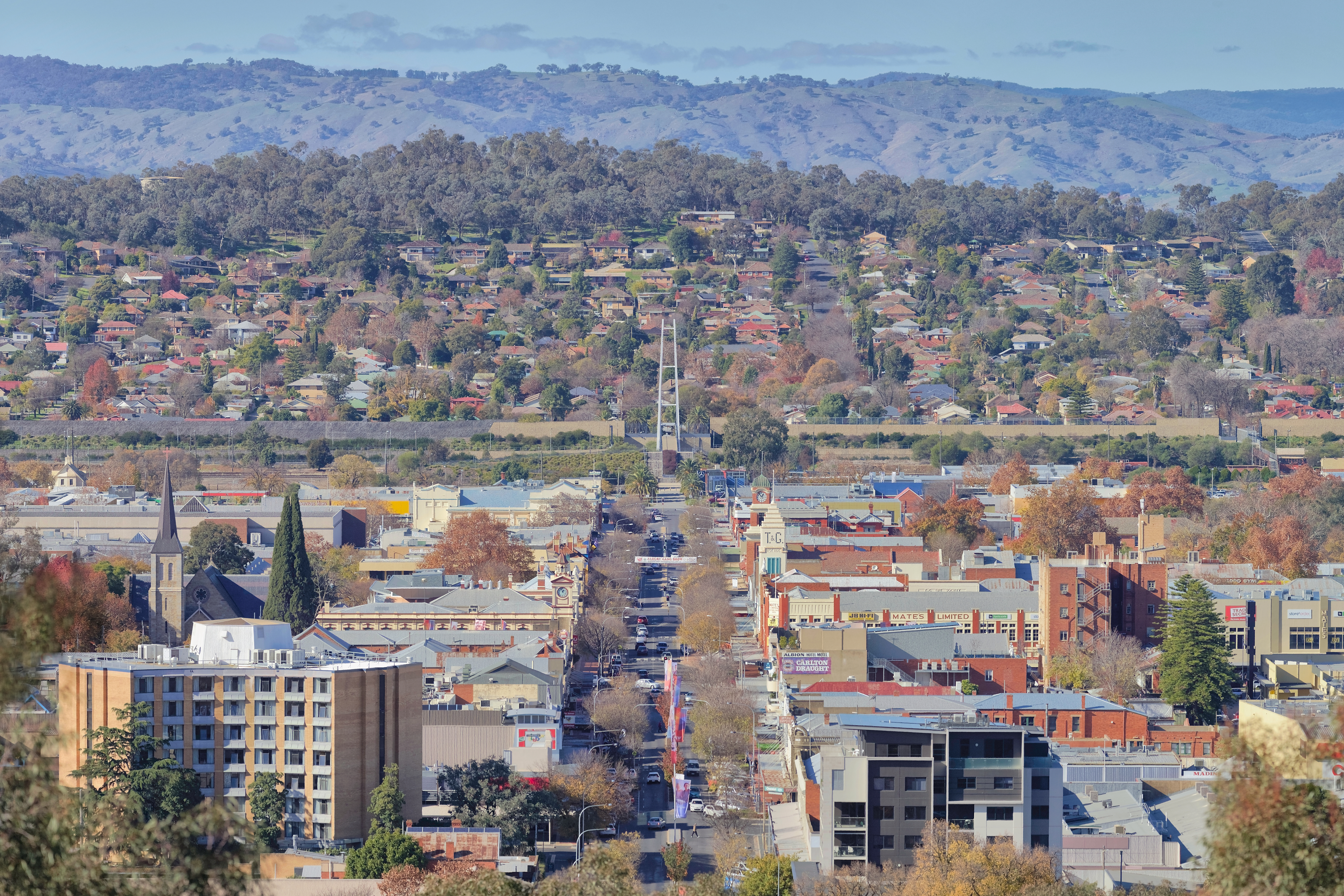 Dean Street, Albury, NSW, from Monument Hill. Three images stitched with Hugin.